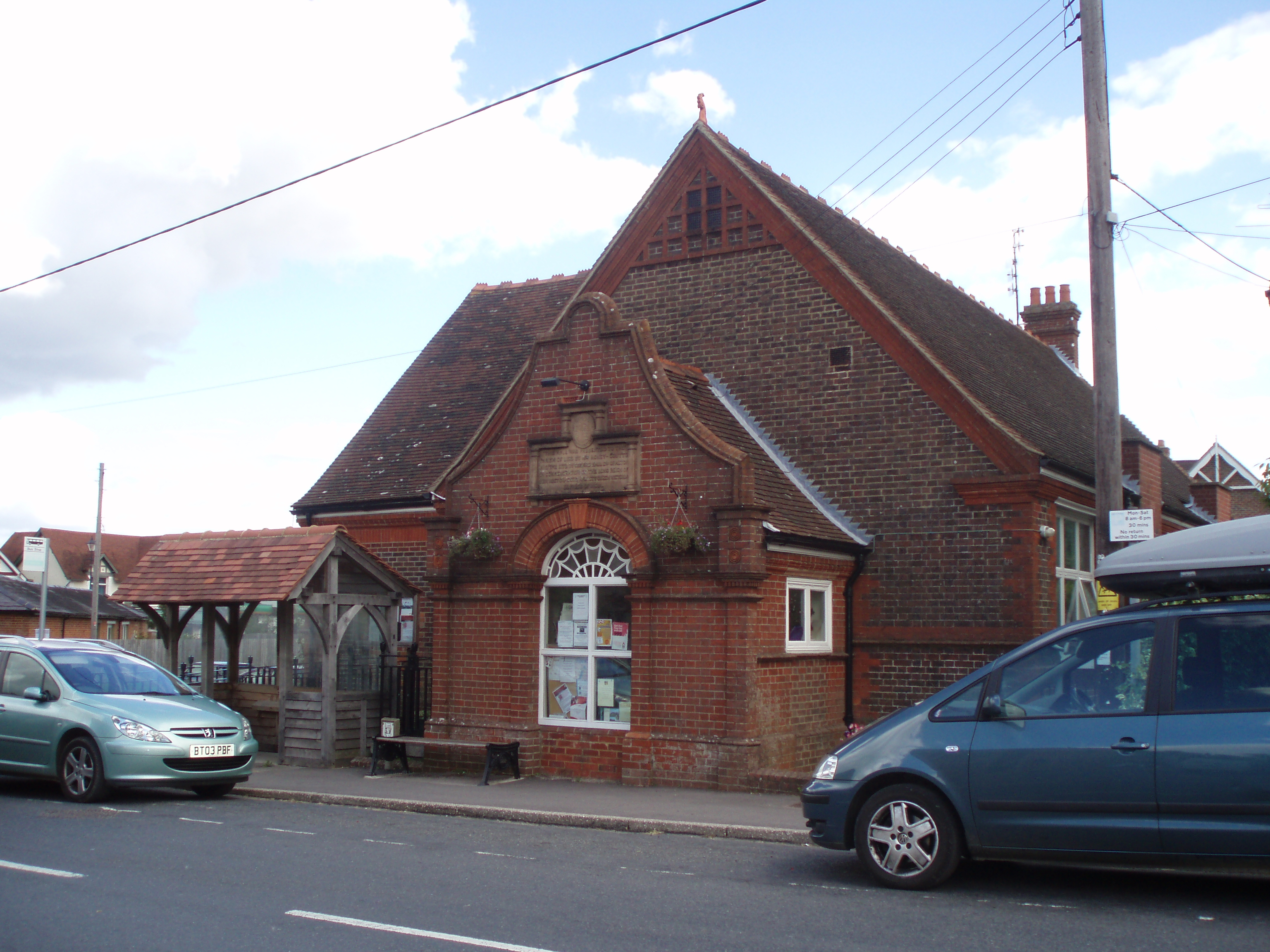 Photo taken 13th August 2007